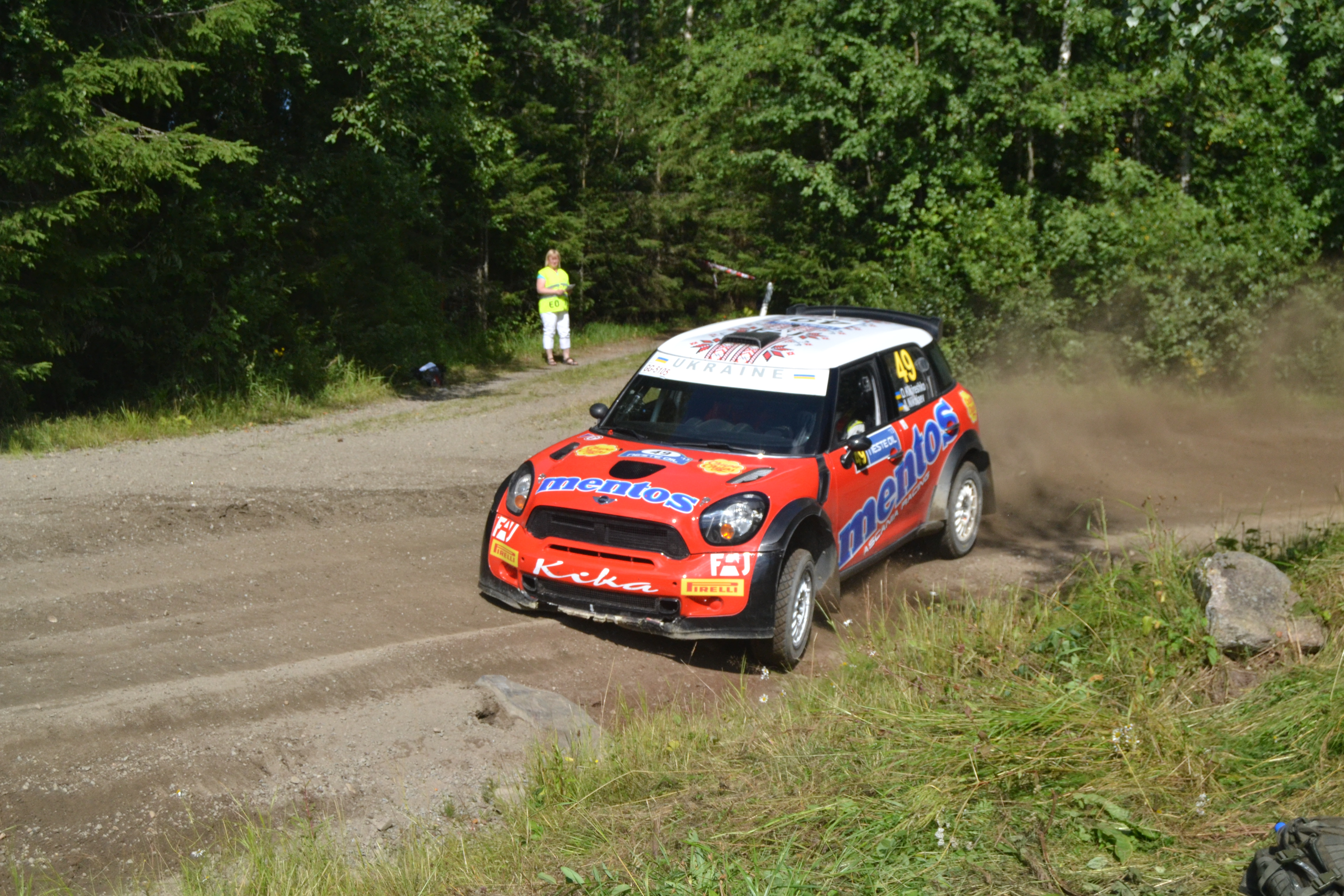 Oleksiy Kikireshko at 2nd Surkee stage at 2013 Rally Finland